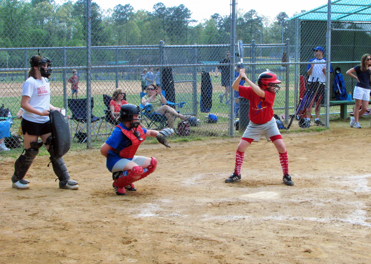 Girls little league softball demonstrating good form hitting and catching.